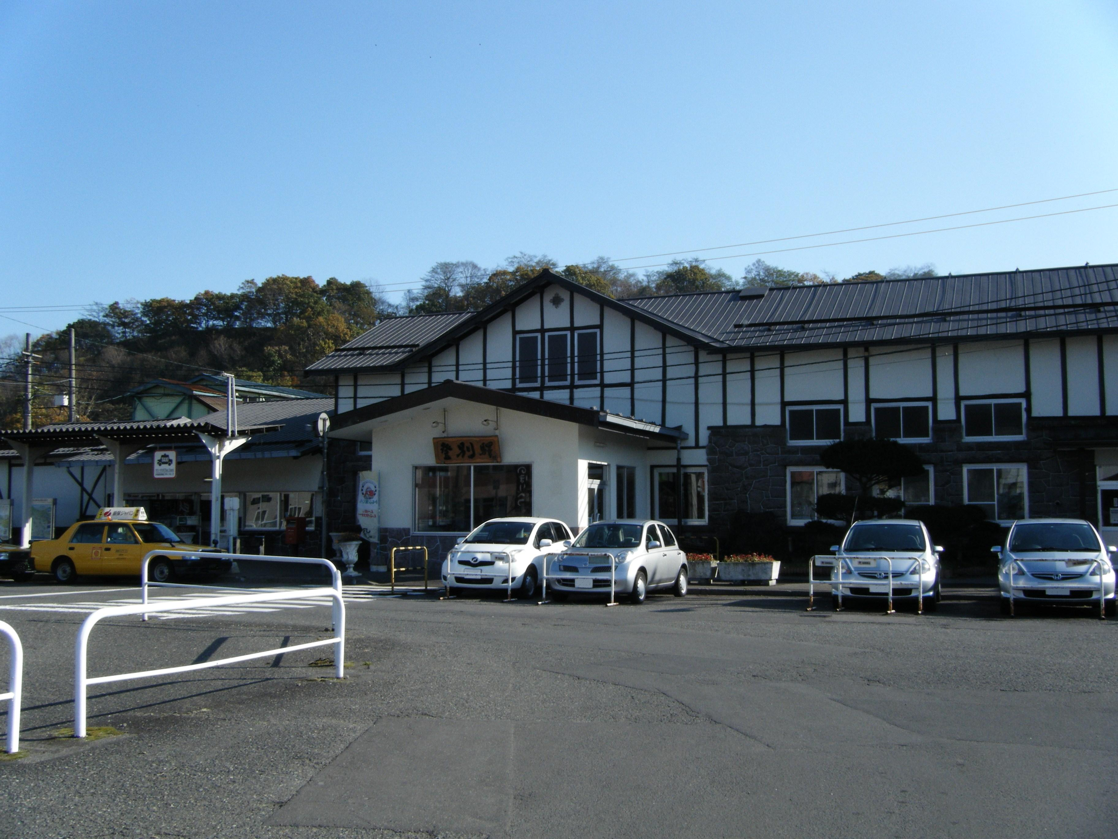 Noboribetsu Station in Hokkaido, Japan